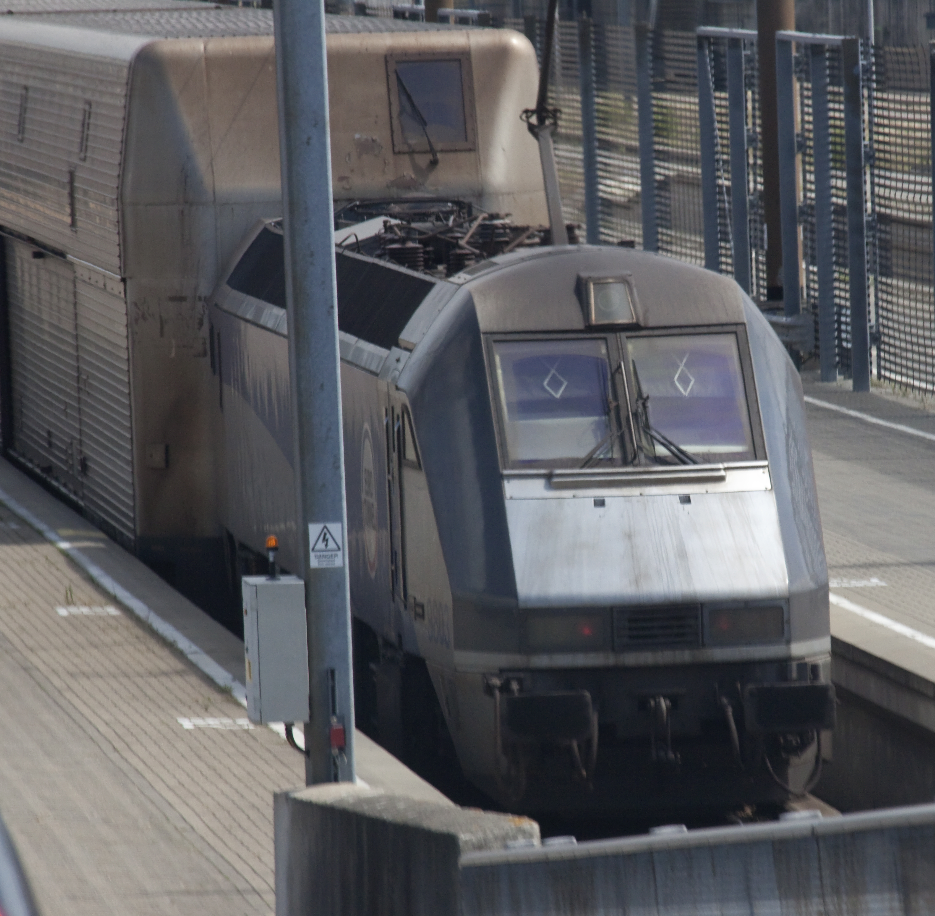 Off to France on the first day of our summer holiday